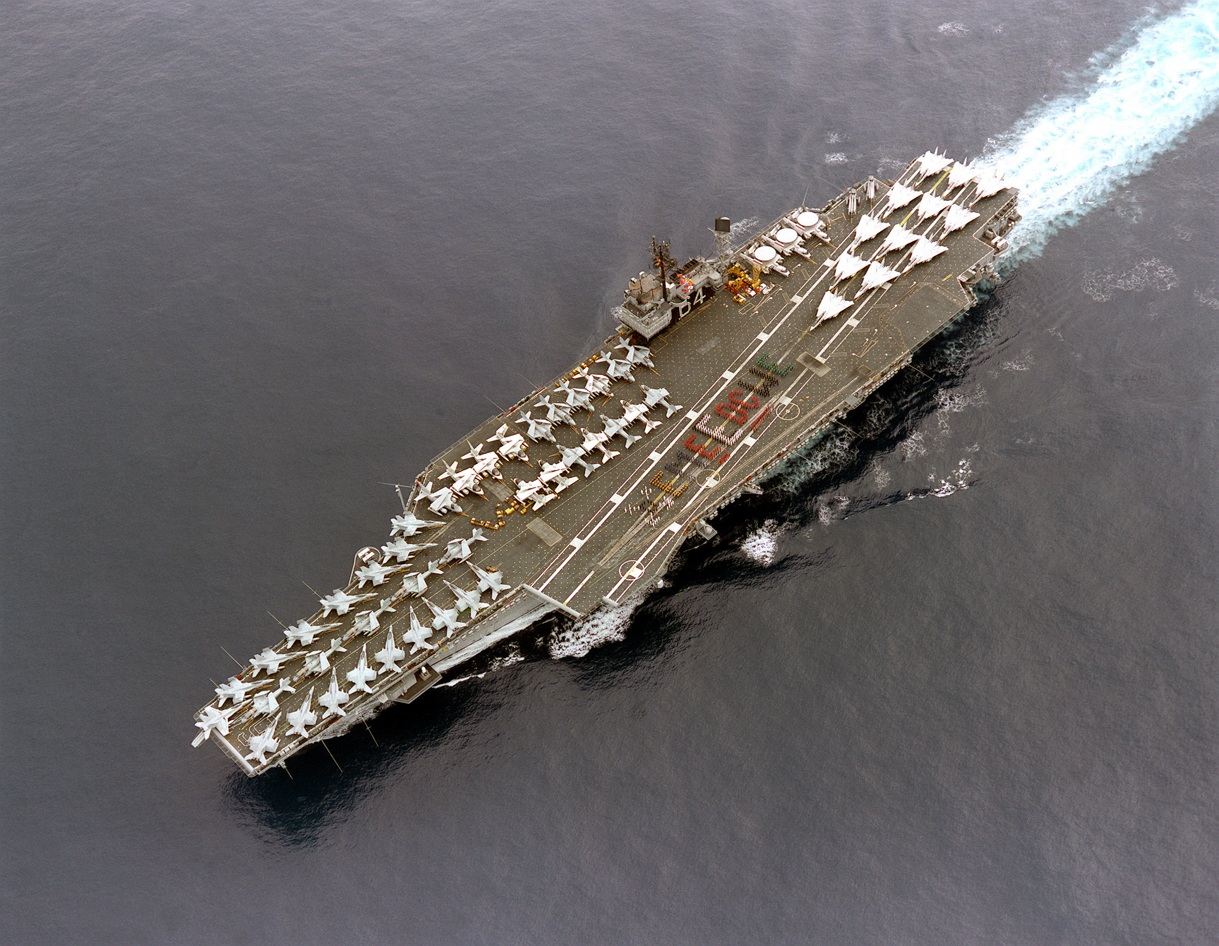 An aerial port beam view of the U.S. Navy aircraft carrier USS Constellation (CV-64) as crew members form the "Battle E" awards for excellence on the flight deck of the ship.